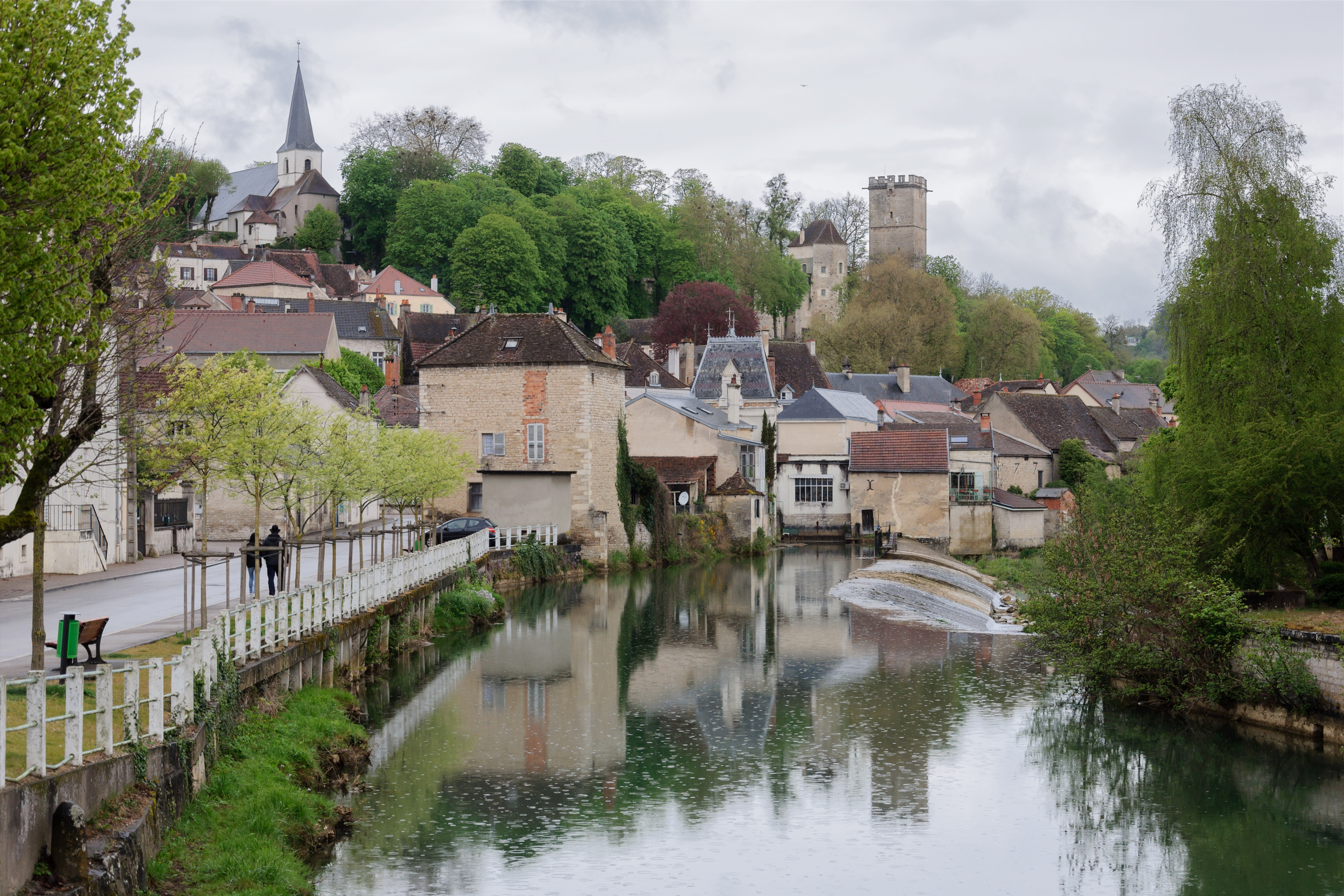 Montbard, Côte-d'Or department, Burgundy, France, through which the Brenne river runs.